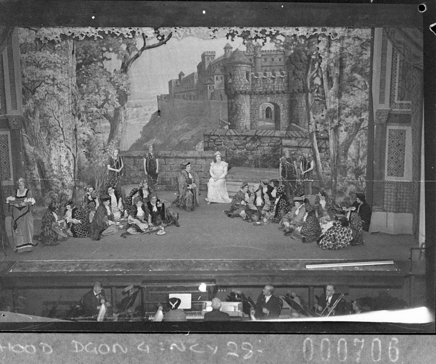 Gilbert and Sullivan Society "Princess Ida"